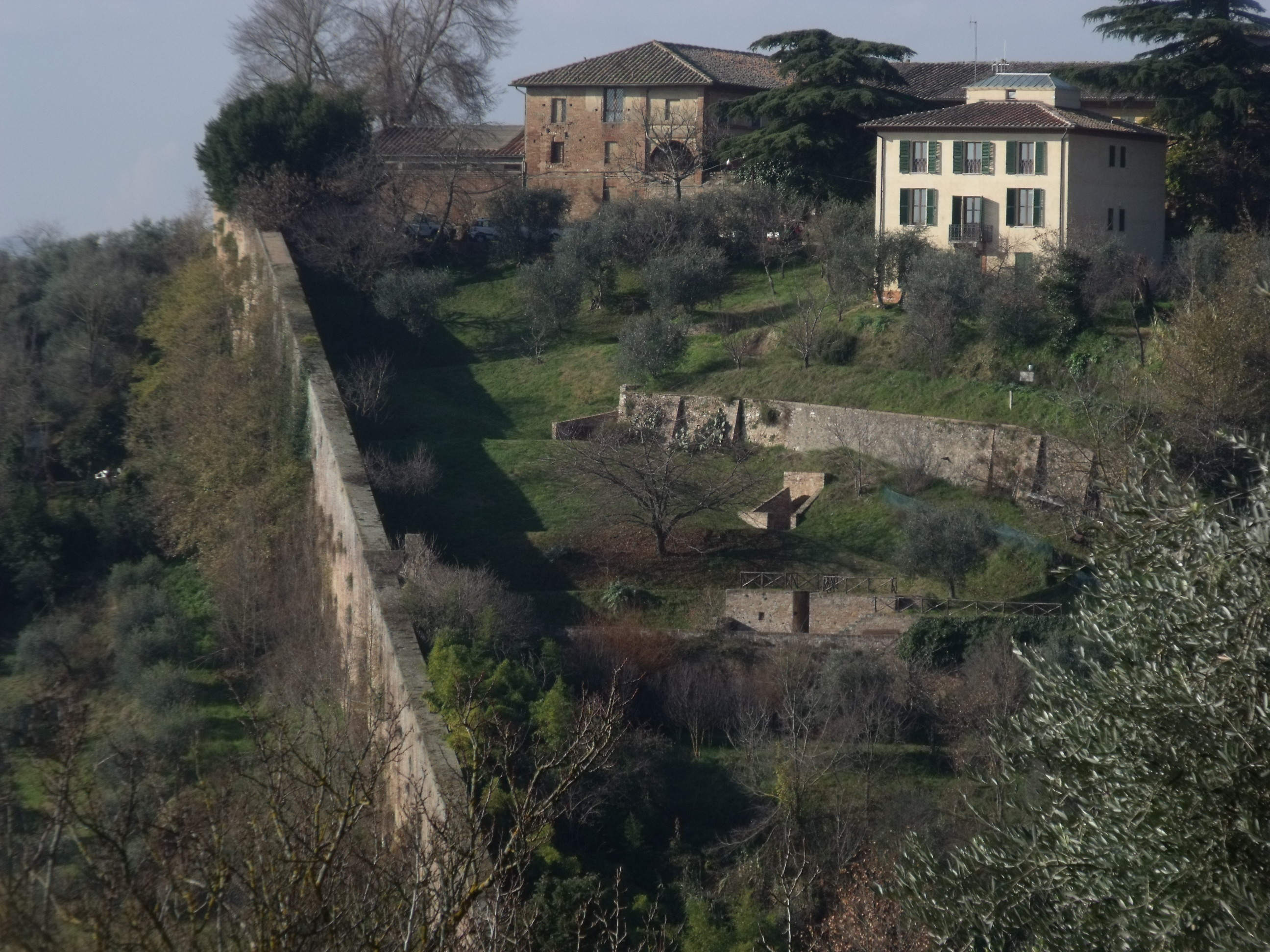 City Wall of Siena west of Porta Romana